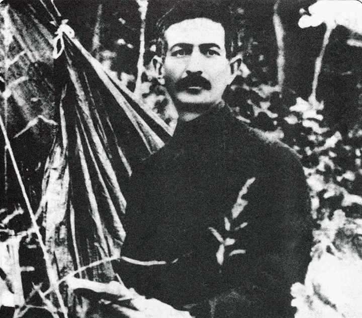 Iranian Poet